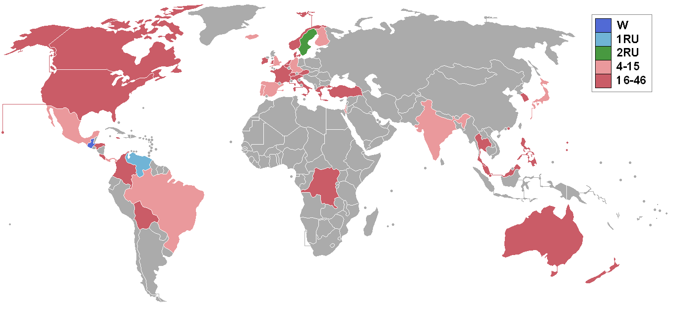 Miss International 1984 results map